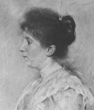 Chalk and pastel on paper. Inv. 4720